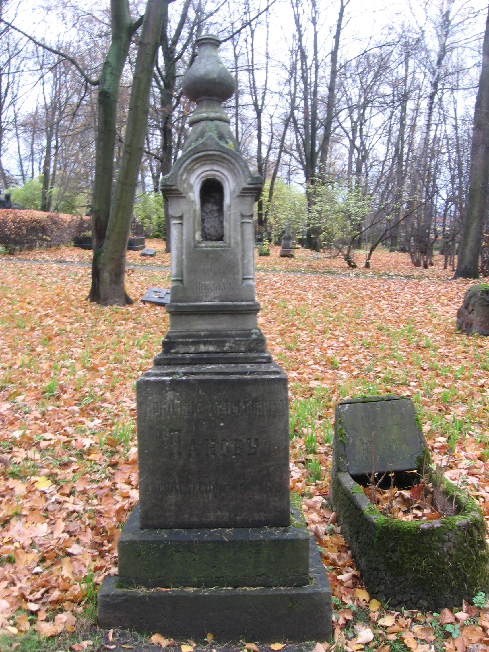 Grave of Nikolay Panov